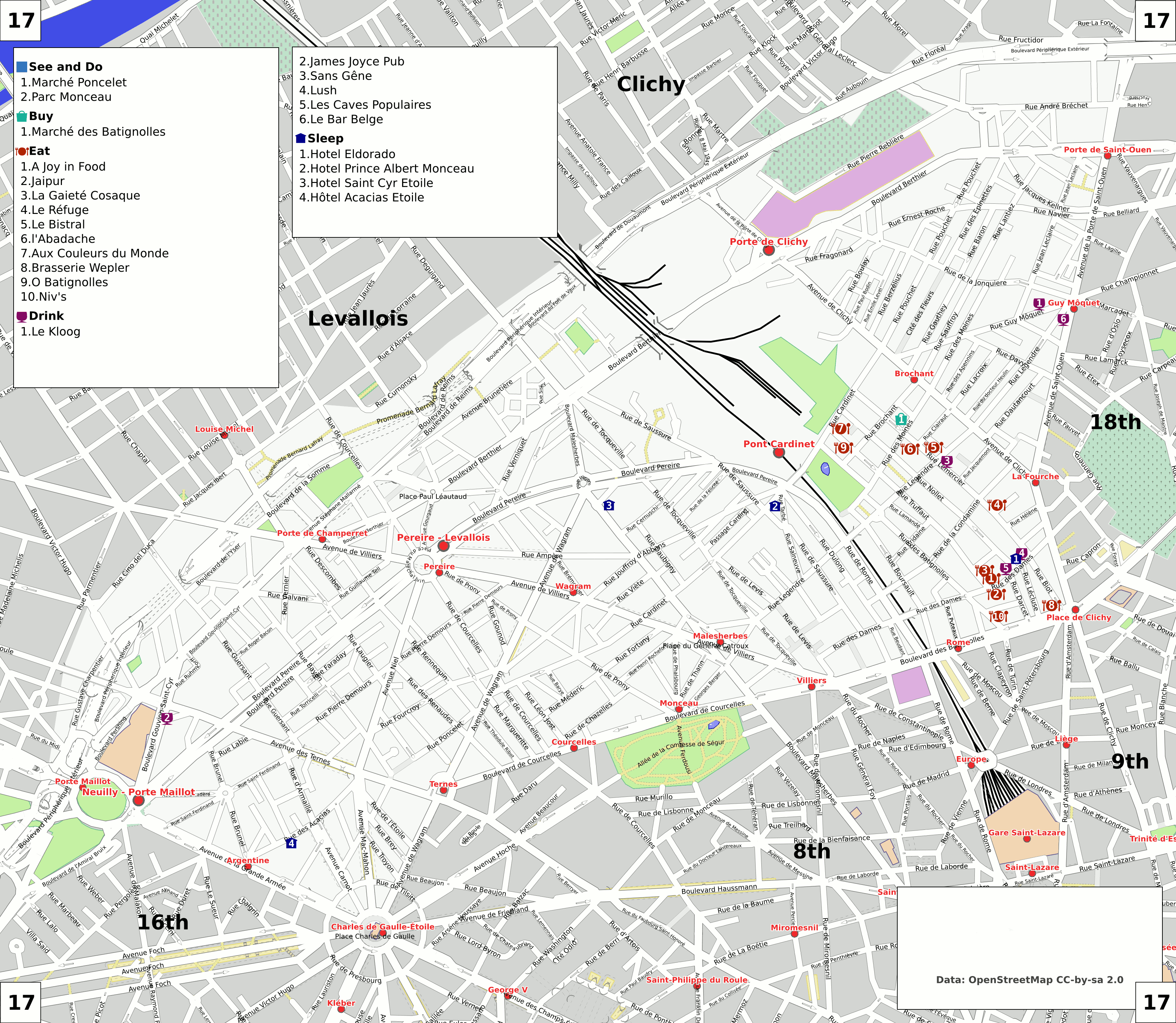 Paris 17th arrondissement map with listings.